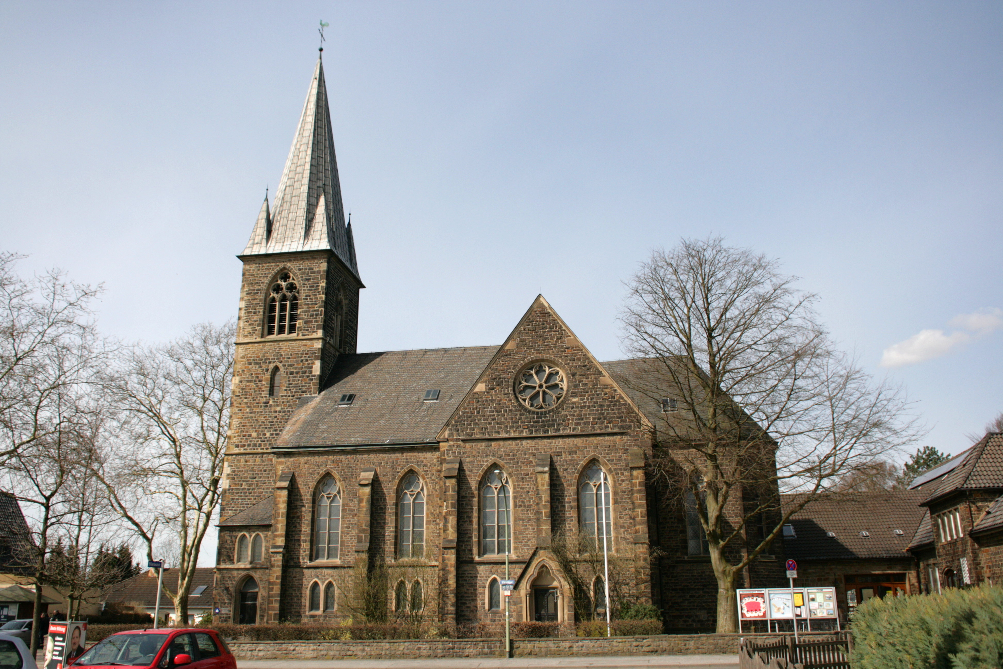 protestant church in Witten-Heven